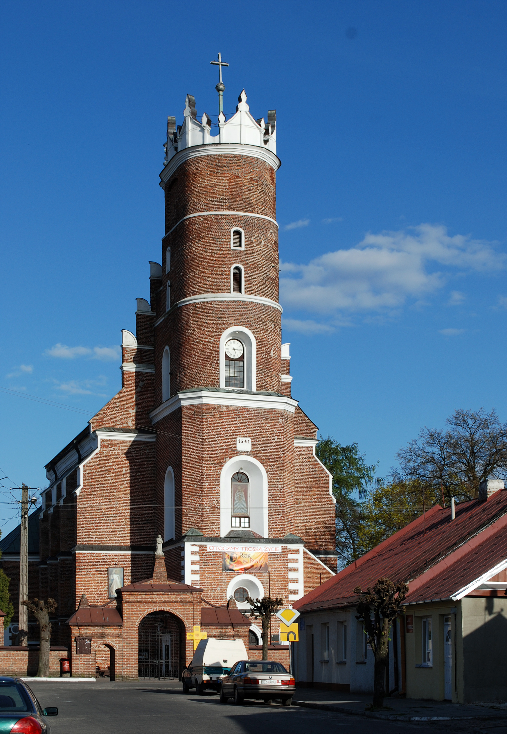 Parish church in Chodel (Poland, Lublin voivodship), build from 1541 to 1581.